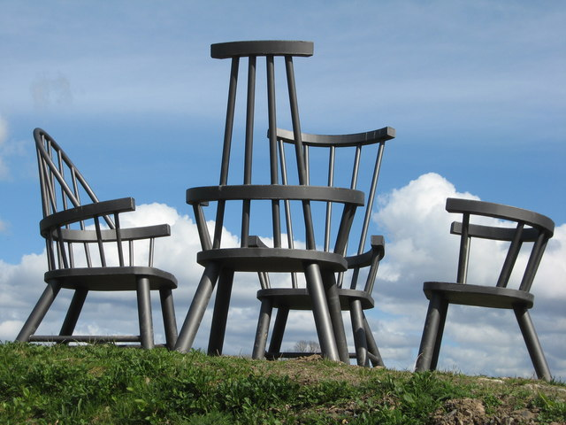 Cywain Centre 5 These oversized seats on the mound represent rural homelife and a strong sense of community. They are another work by local artist, Angharad Pearce Jones. There is just a touch of Alice in Wonderland about them!